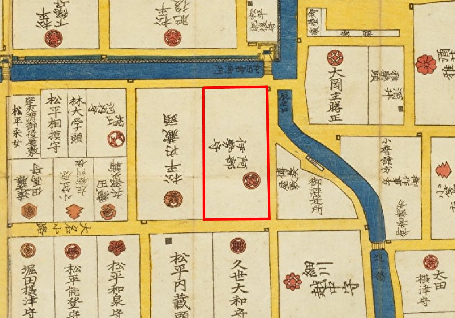 Residence of Abe clan at Edo